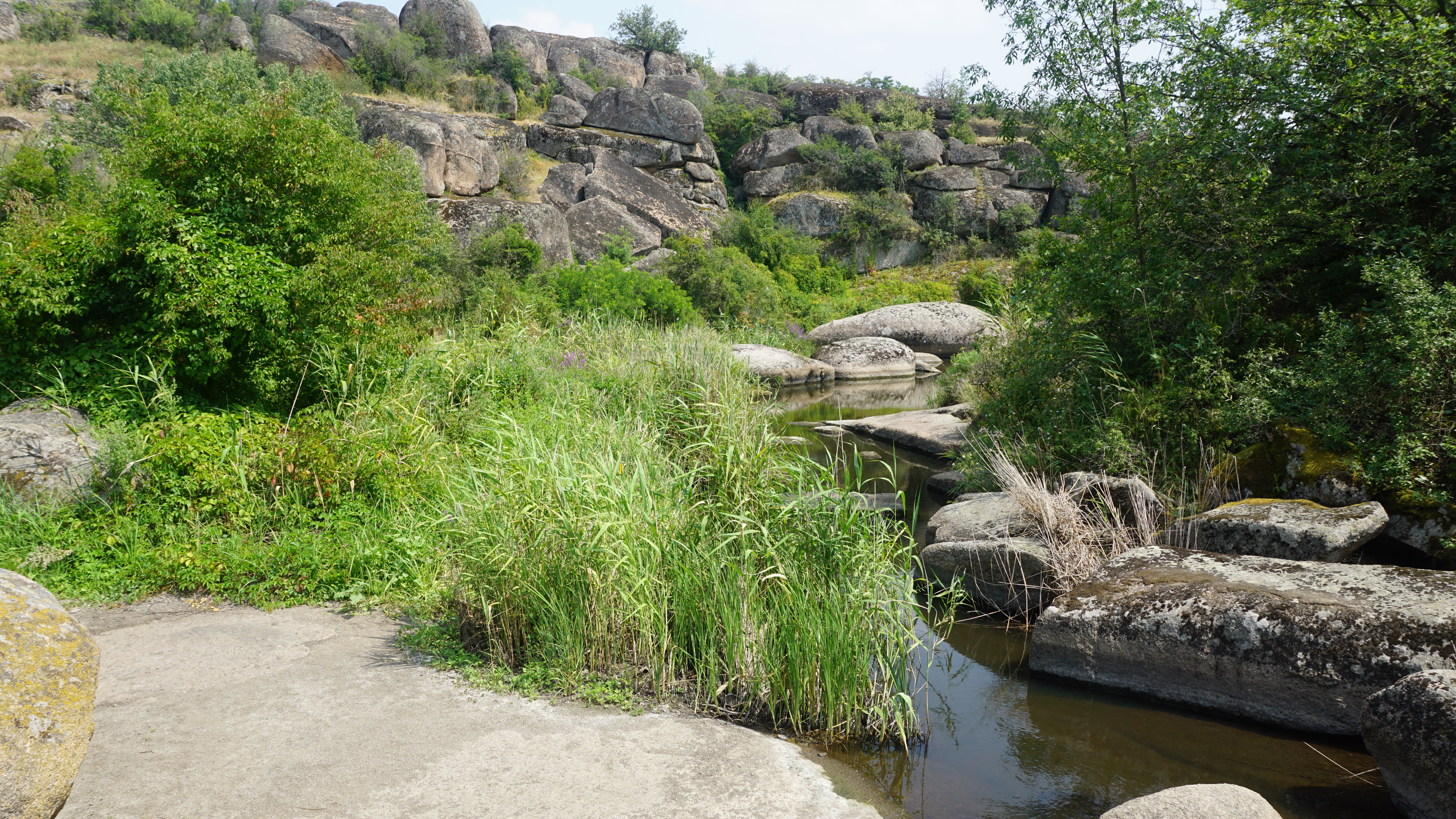 Arbuzynka Сanyon on Arbuzynka river near Trykraty